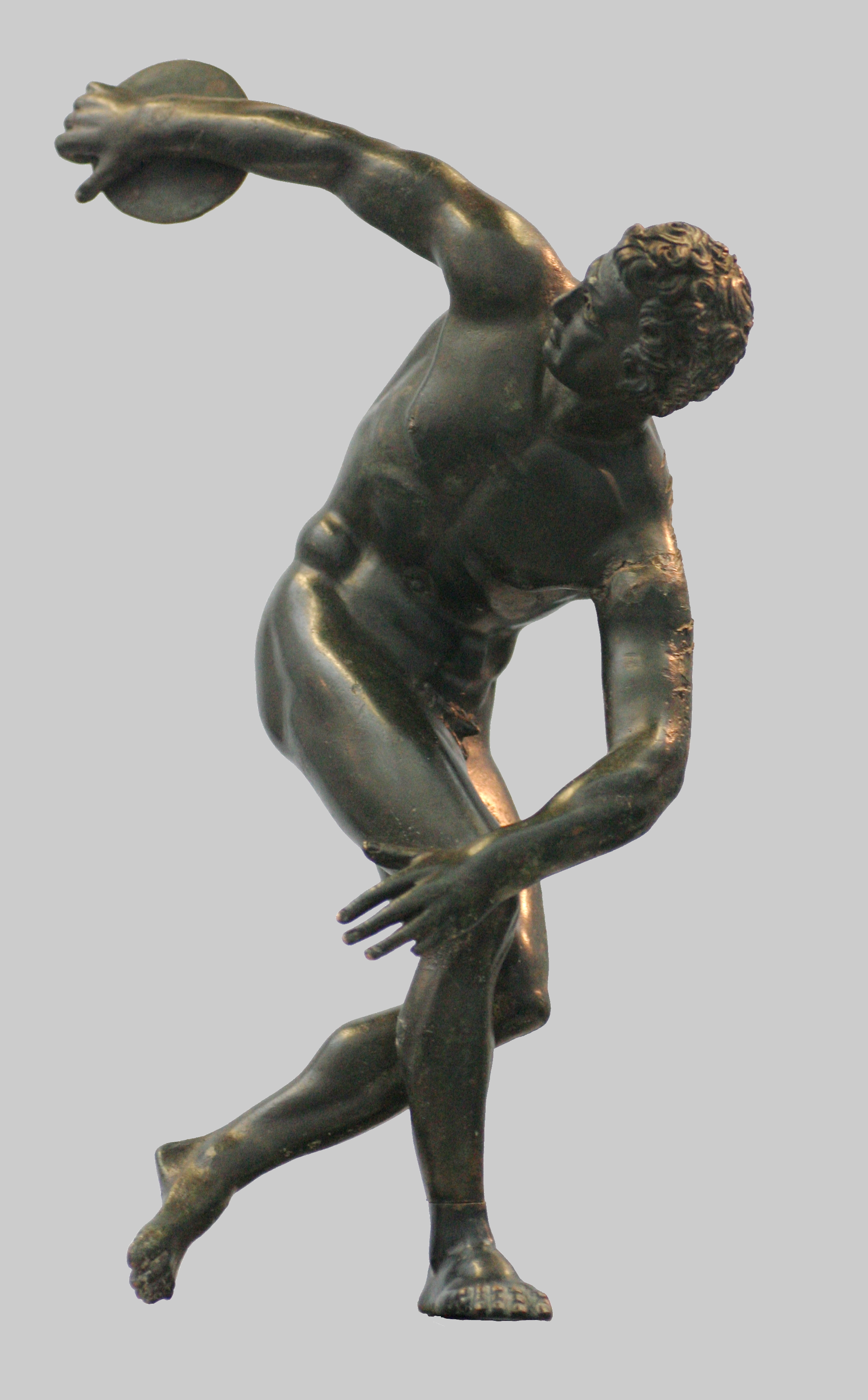 Roman bronze reduction of Myron's Discobolos, 2nd century CE.